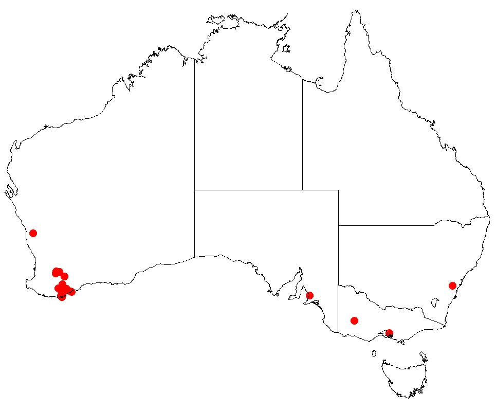 Hakea baxteri Occurrence data downloaded from Australasian Virtual Herbarium on 22 November 2018 using